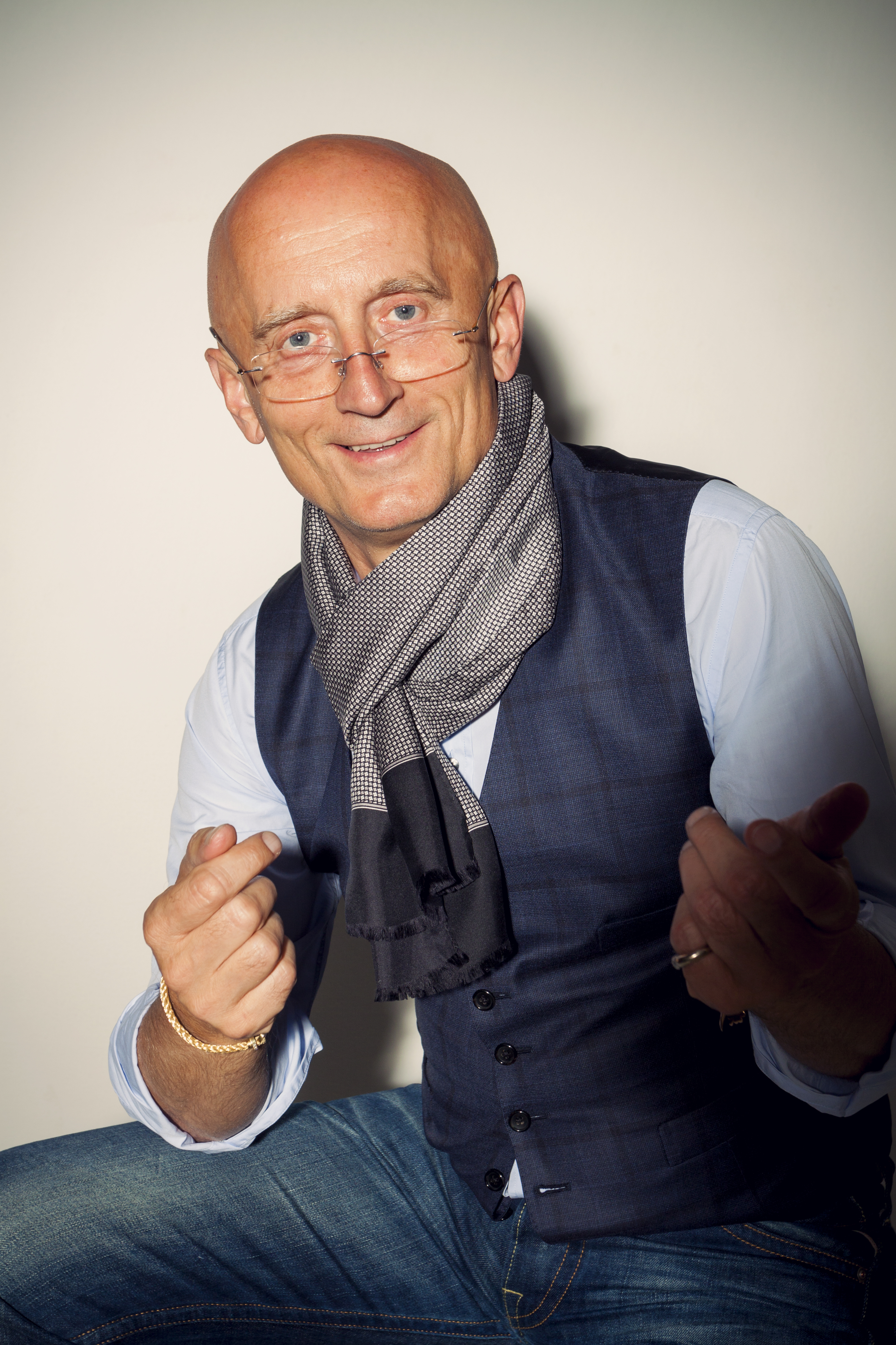 Ivo Valenta, entrepreneur and Czech senator